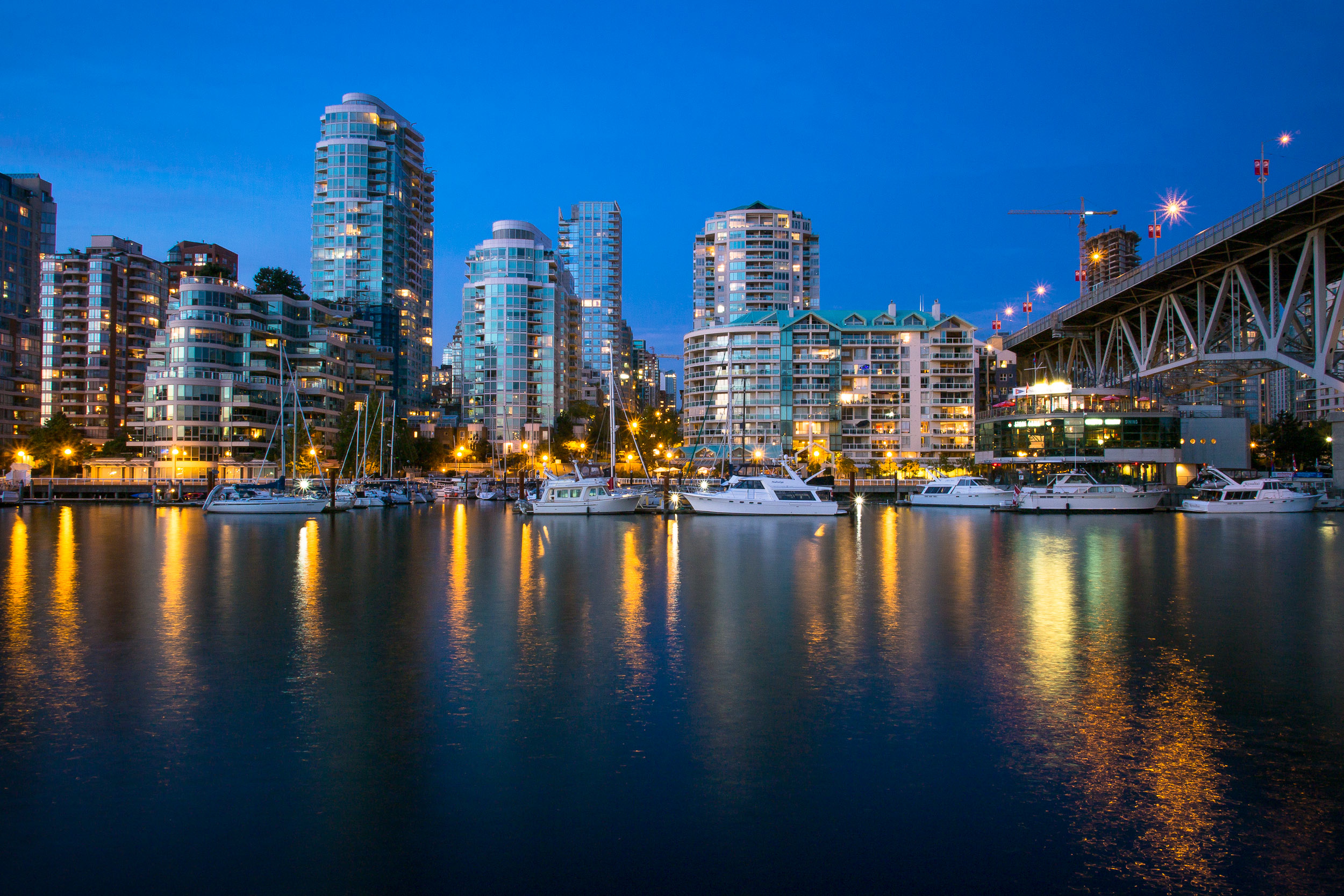 It seems like it's been forever since I had gone on a nice blue hour photo-walk so I tried to make the most of the opportunity on walk with the Vancouver-area Four Thirds users group joined by Eric, Kris, Hubert and Rob.